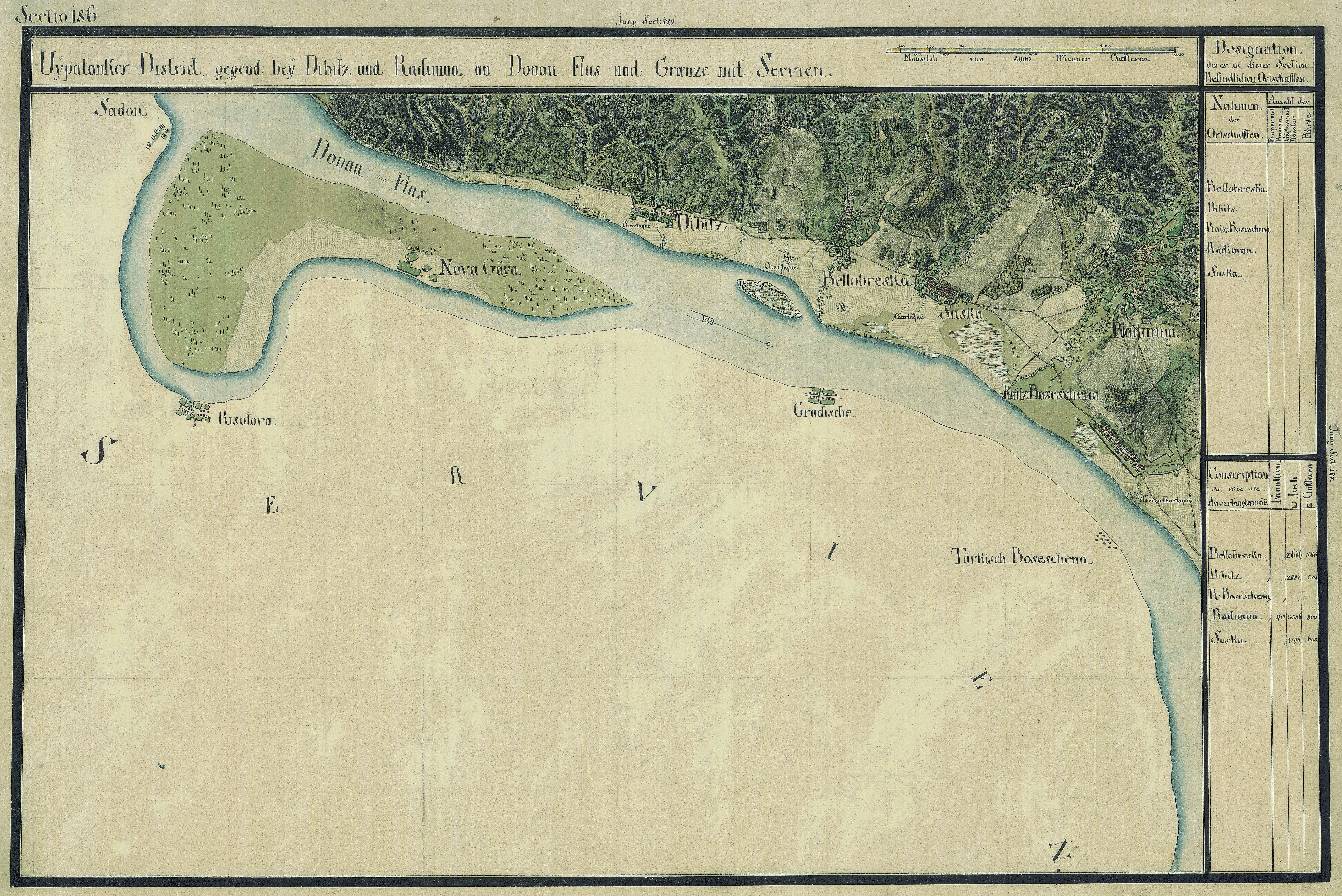 The Banat region in the cadastral maps: Josephinische Landesaufnahme, 1769-72. Josephinische Landaufnahme pg186